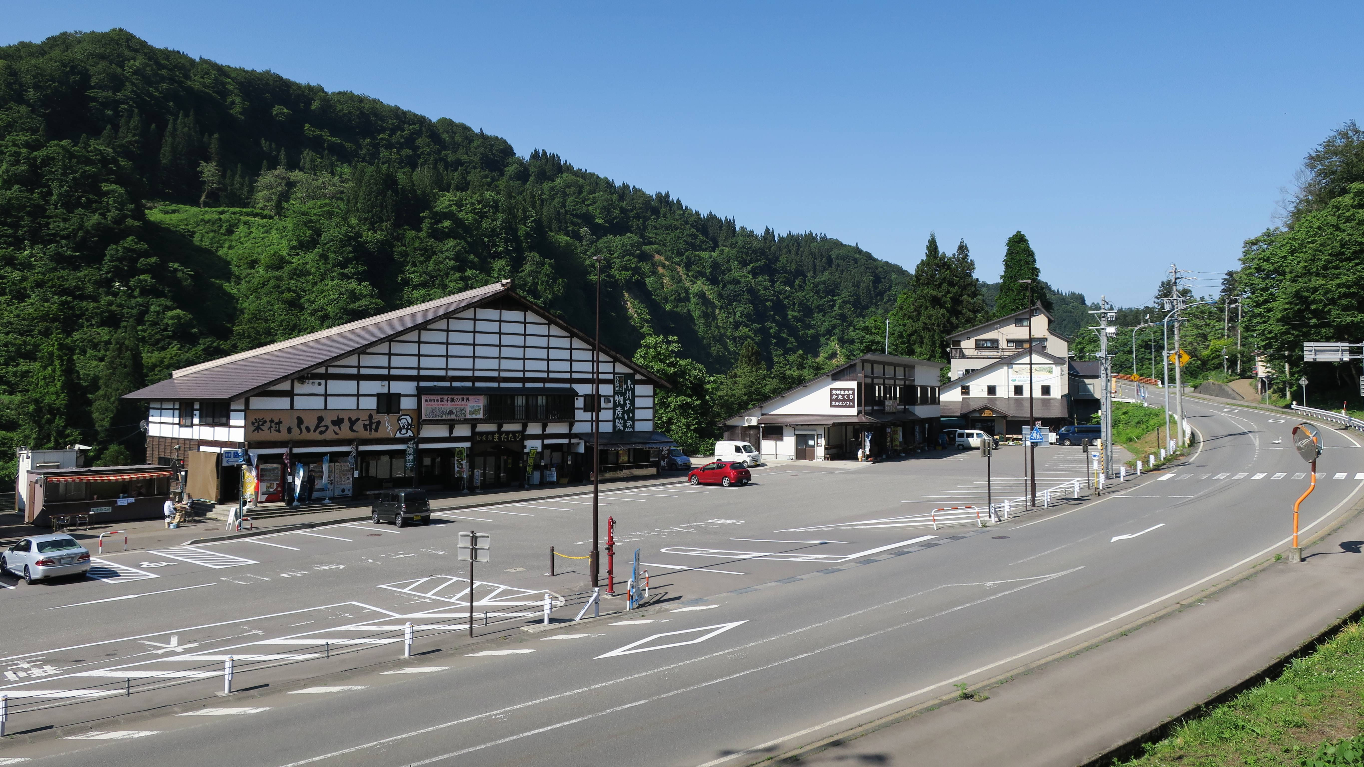 Michinoeki Shin-etsusakae (Sakae, Nagano).